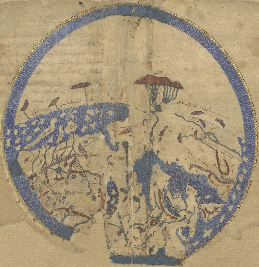 Idrisi, De geographia universali, prefatory world map, from Paris MS BNF Ar. 2221 ff 3v-4r